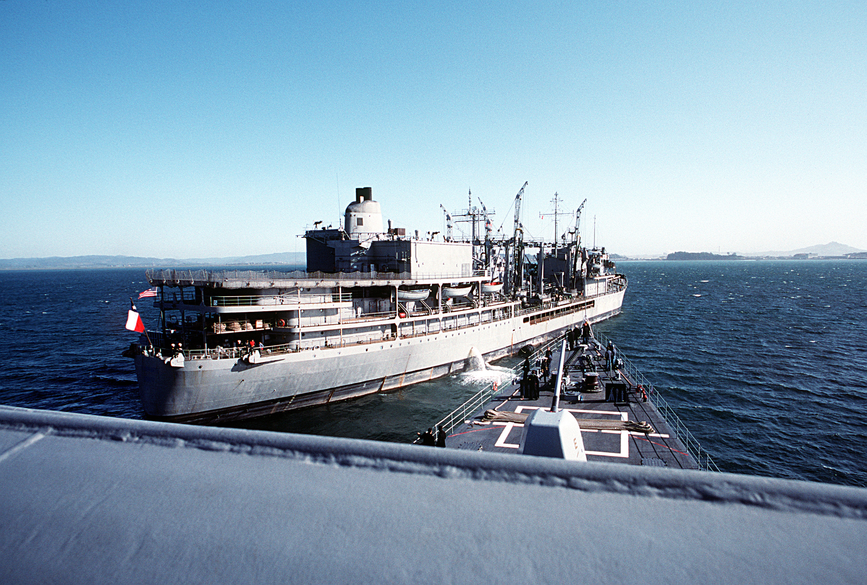 The U.S. Navy destroyer USS O'Bannon (DD-987) comes alongsidethe Chilean tanker Almirante Jorge Montt (AO-52) during replenishment operations off Talcahuano, Chile. The vessels were taking part in Unitas XXXII, in 1991. Almirante Jorge Montt (AO-52) was the former RFA Tidepool (A76) and served with the Chilean Navy from 1982 to 1997. It was the second of (up to 2015) three Chilean tankers named and designated Almirante Jorge Montt (AO-52).